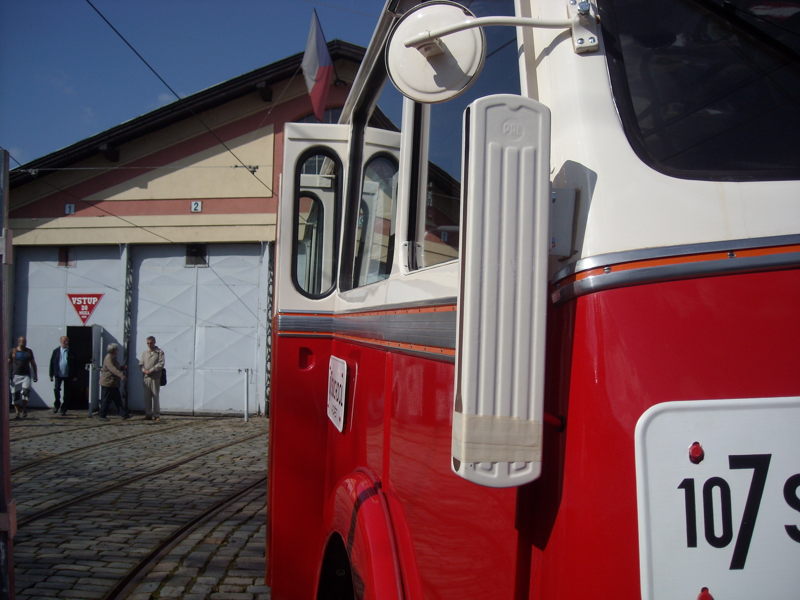 Trafficators on bus 706RO